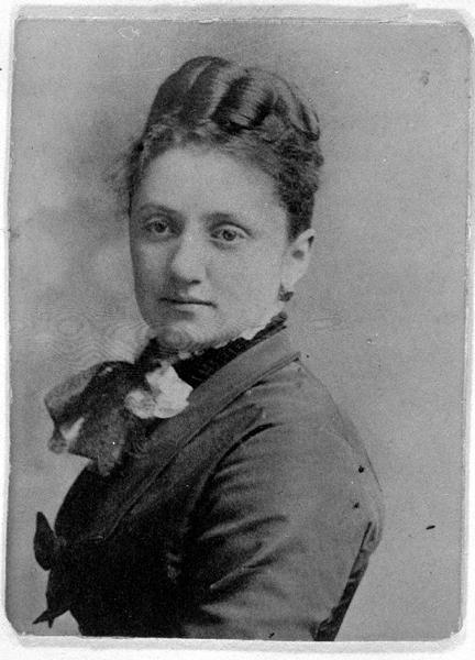 Matilda Coxe Stevenson, circa 1870, Washington, D.C. Photograph by C.M. Bell. National Anthropological Archives, Smithsonian Institution, neg. no. 56196